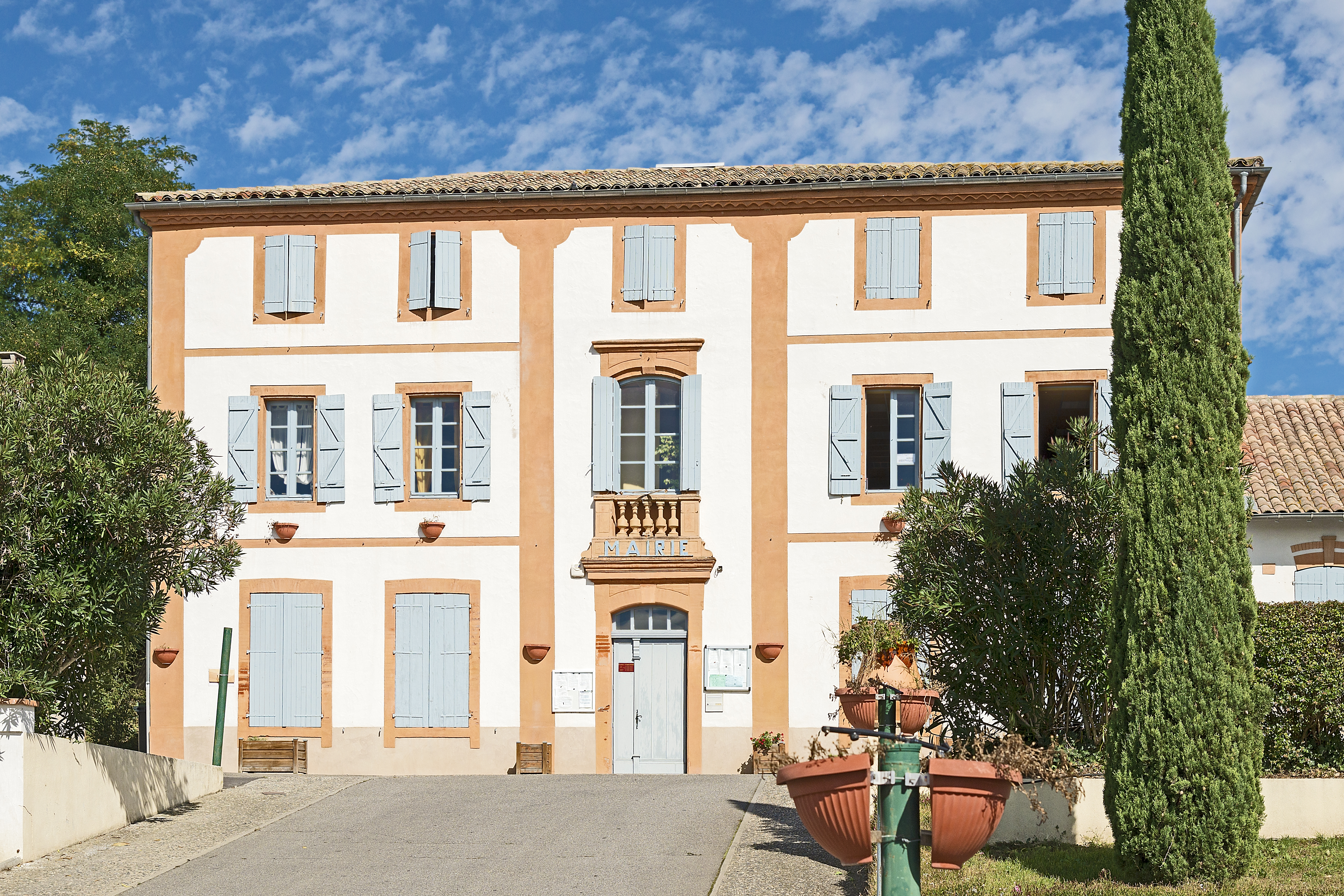 Grisolles, Tarn-et-Garonne. Facade of Town Hall.